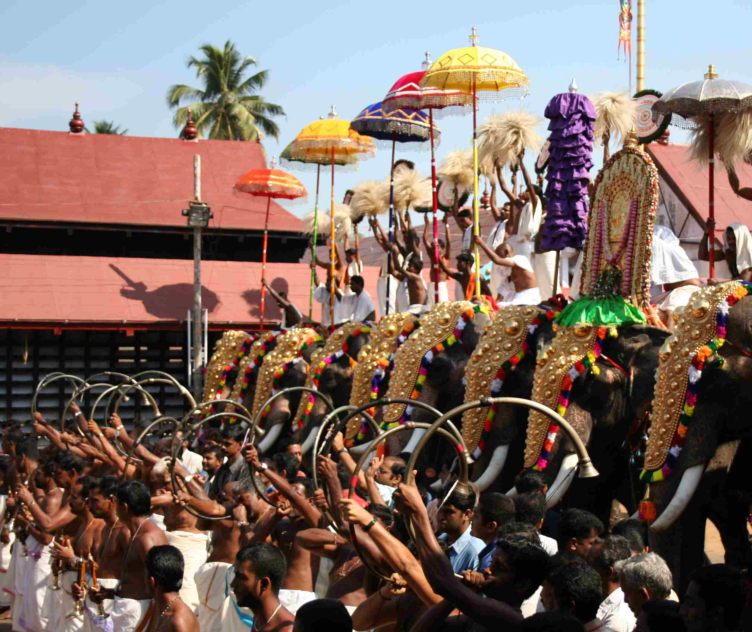 Caparisoned elephants and Panchari Melam performance during Sree Poornathrayesa temple festival, Thrippunithura, Kerala, South India.